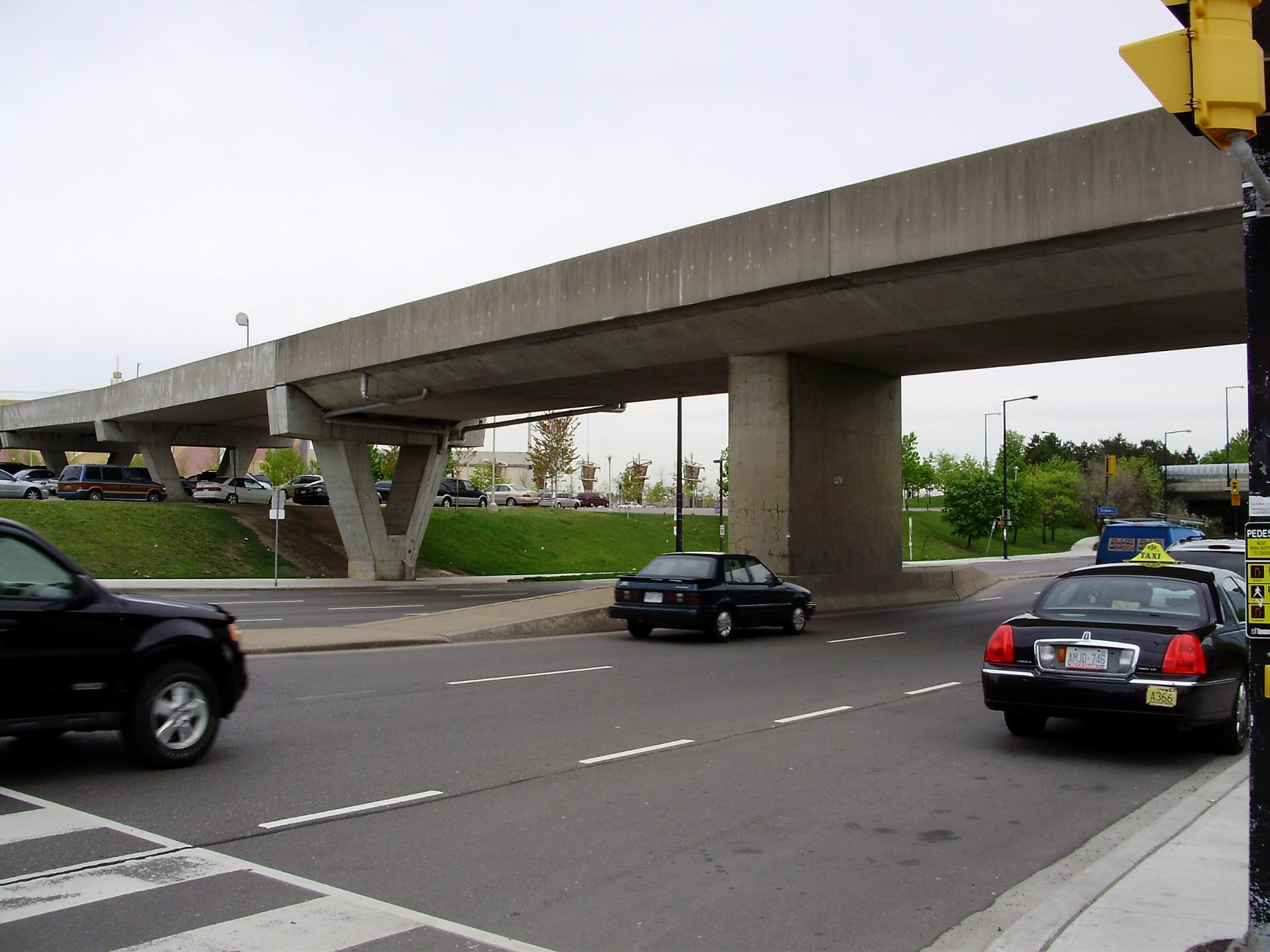 The elevated rails of the Scarborough RT cross above McCowan Road, just east of McCowan station in Scarborough, Canada.